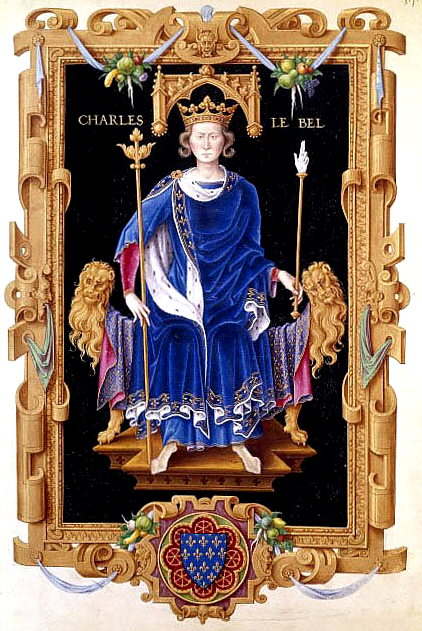 Depicted person: Charles IV of France